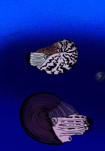 Comparisons of the nautilid cephalopods Nautilus cookanum (top) and Aturia alabamensis (bottom), from the Late Eocene Hoko River Formation, Oregon.